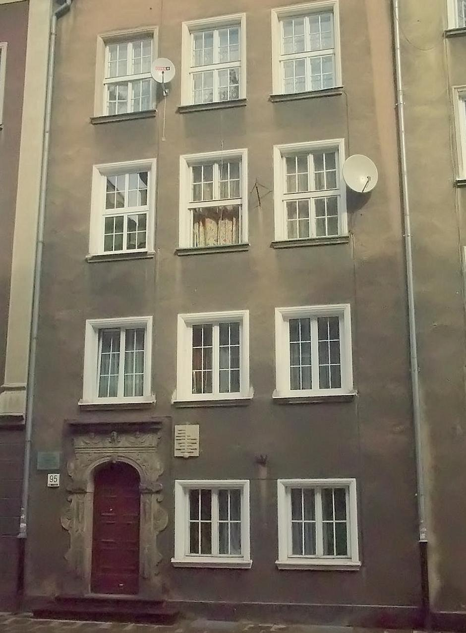 Daniel Gabriel Fahrenheit's birthplace, in 1702 documented as Hundegasse 32A in Danzig, later Hundegasse 94, today ul. Ogarna 95, Gdańsk